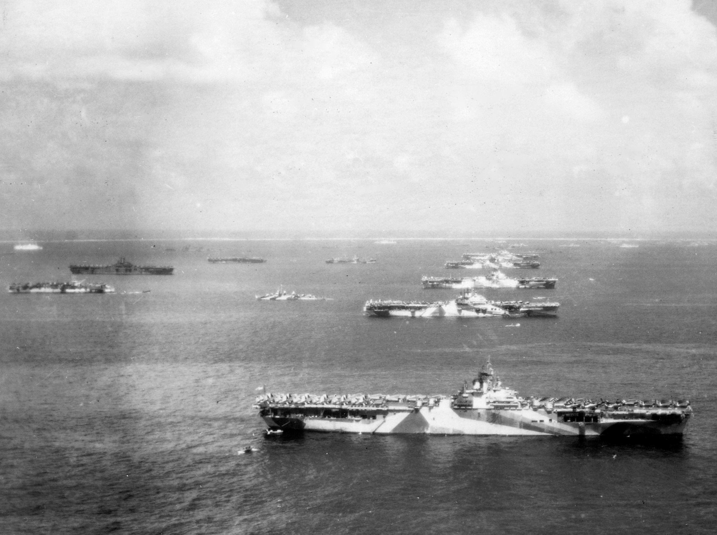 U.S. Third Fleet aircraft carriers at anchor in Ulithi Atoll, 8 December 1944, during a break from operations in the Philippines area. The carriers are (from front to back): USS Wasp (CV-18), USS Yorktown (CV-10), USS Hornet (CV-12), USS Hancock (CV-19) and USS Ticonderoga (CV-14). Wasp, Yorktown and Ticonderoga are all painted in camouflage Measure 33, Design 10a. The other Essex-class carrier painted in sea blue Measure 21 is USS Lexington (CV-16).